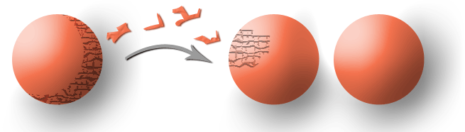 Description: The Banach-Tarski Theorem ("paradox"): a solid sphere can be decomposed into pieces and reassembled into two spheres of the same size.